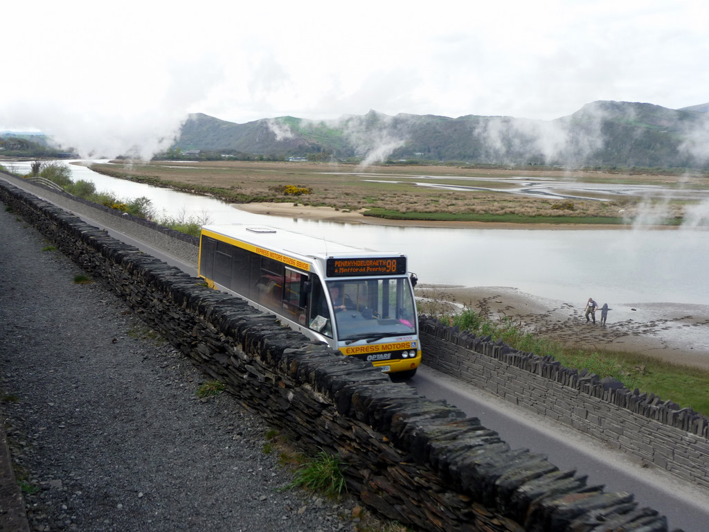 The Traeth Mawr sands and River Glaslyn near Porthmadog, Wales, as viewed from a train travelling along the 'Cob'. The Cob is a mile long dyke which carries the narrow gauge heritage Ffestiniog Railway, and the A487 road. An Express Motors bus is heading out of town on route 98 to Penrhyndeudraeth, which barely fits on the destination display.